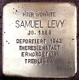 Stolperstein - Stumbling Stone in Nettetal, NRW, Germany Samuel Levy